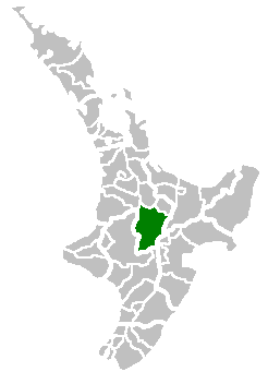 Map showing the Taupo District